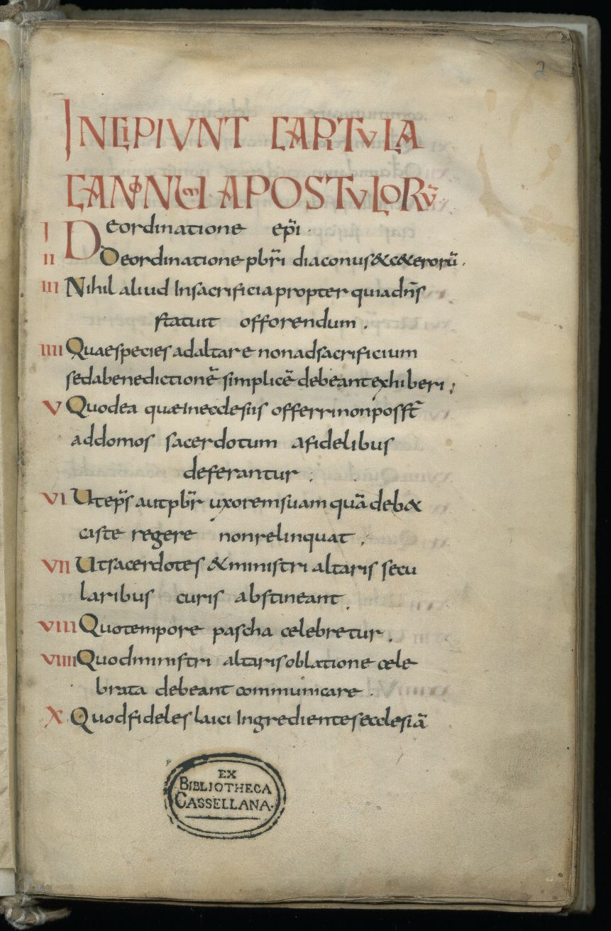 Copy of Collectio Dionysiana I in Kassel Manuscript